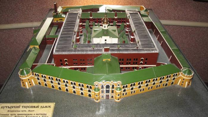 The model of the Butyrsky castle